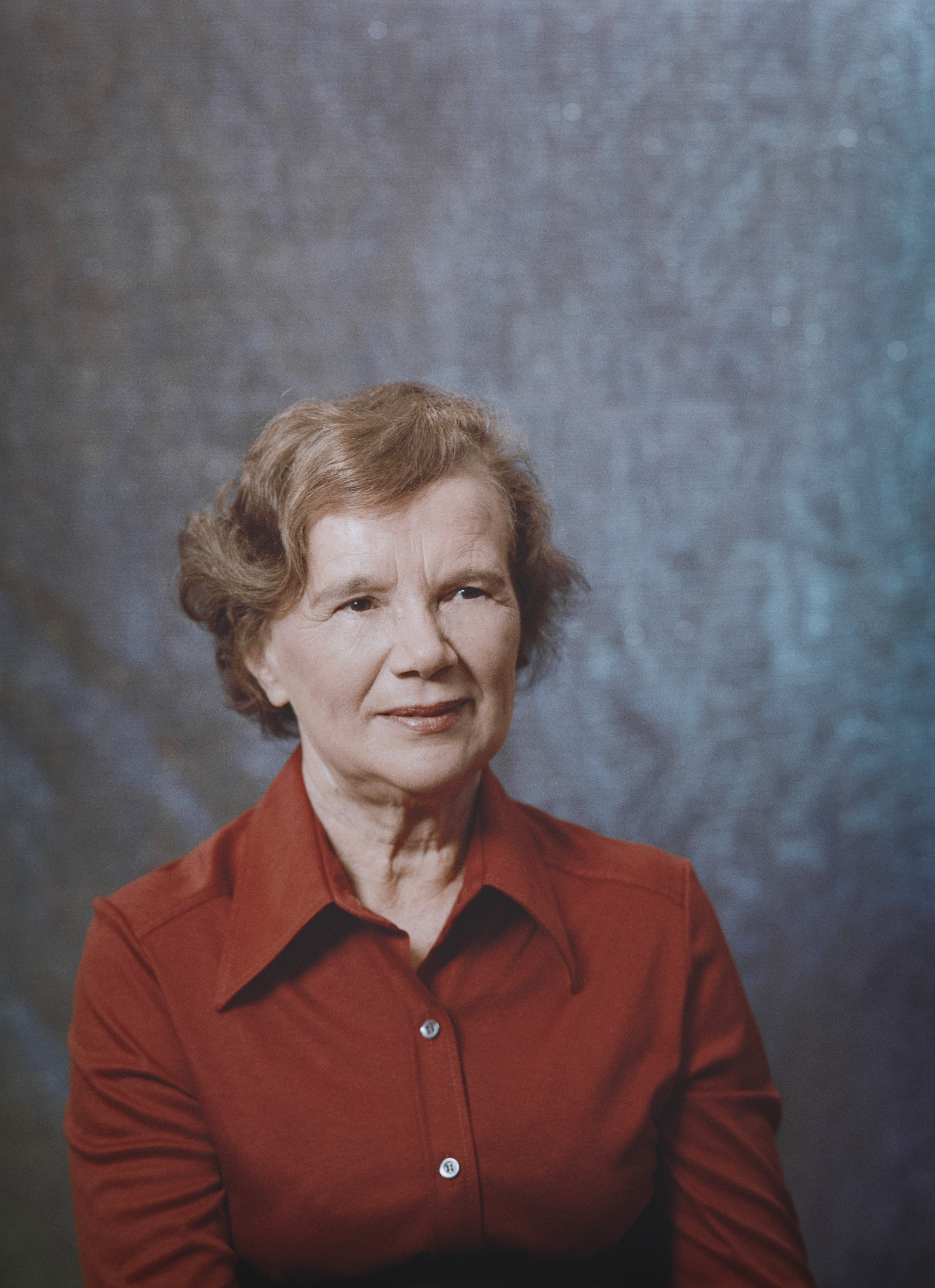 Photograph of the Finnish writer and translator Kaija Pakkanen (1915–2003).